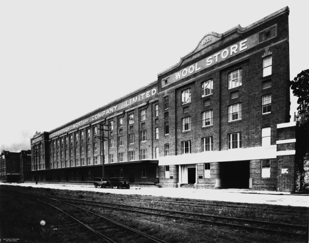 Goldsbrough Mort No. 2 Wool Store in Macquarie Street Teneriffe circa 1930